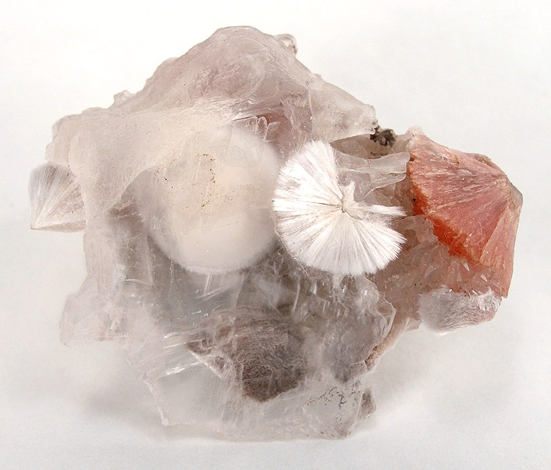 Gypsum, Inesite, Xonotlite Locality: Wessels Mine (Wessel's Mine), Hotazel, Kalahari manganese fields, Northern Cape Province, South Africa (Locality at ) Size: miniature, 4.8 x 4.2 x 2.2 cm Xonotlite in Selenite with Inesite Wow! Wonderfully unique specimen featuring a 1.5 cm perfect xonotlite preserved like a fly in amber inside selenite that overlaid it. Other xonotlite balls stick out the side.